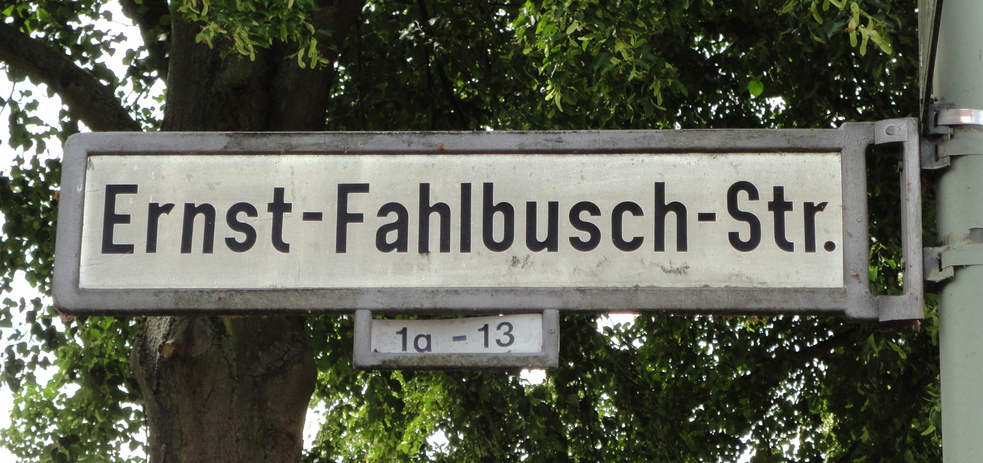 Göttingen-Weende, road sign Ernst-Fahlbusch-Strasse